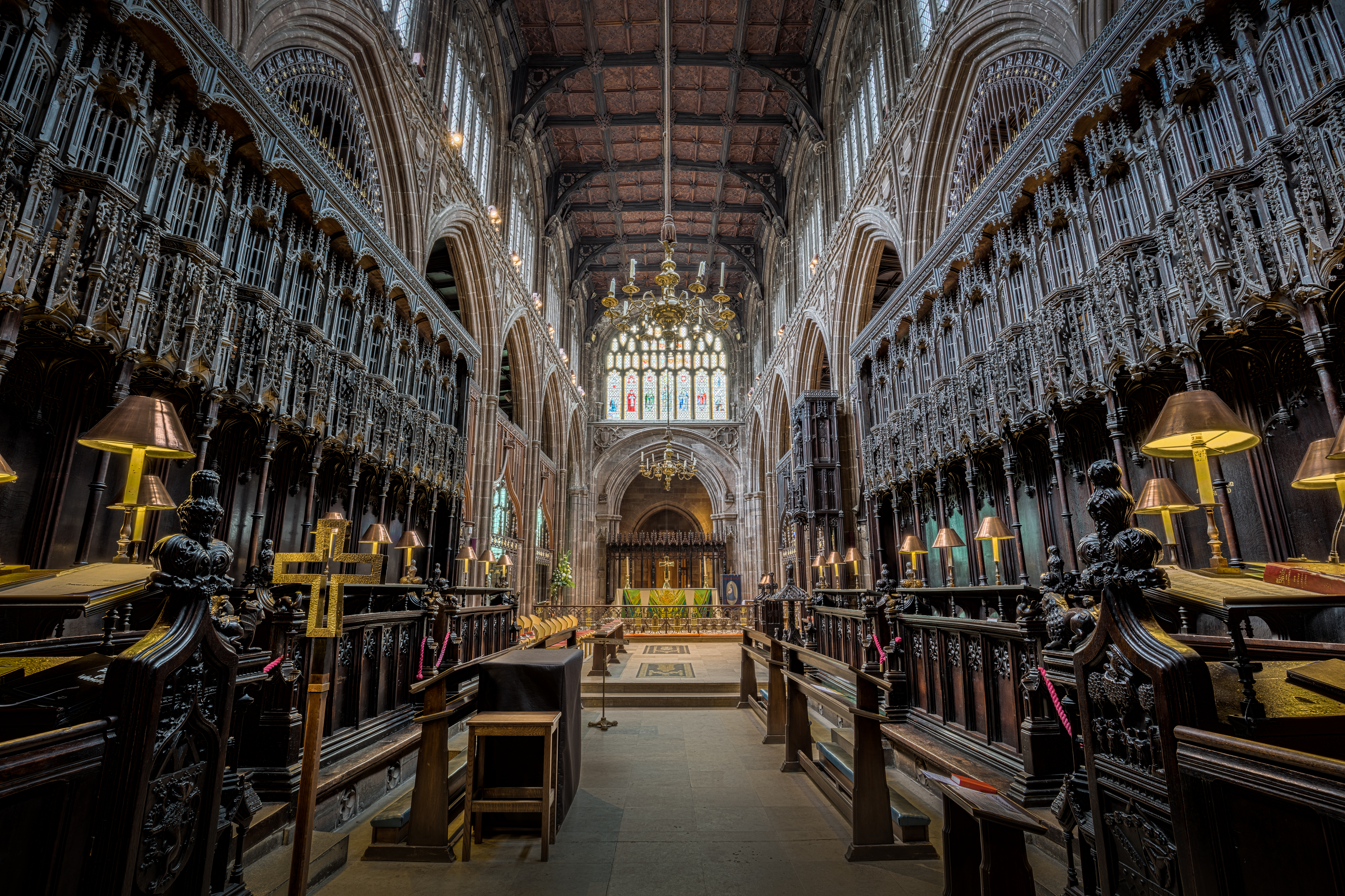 Inside the choir of Manchester Cathedral, Manchester, Greater Manchester, England, UK, looking east to the high altar